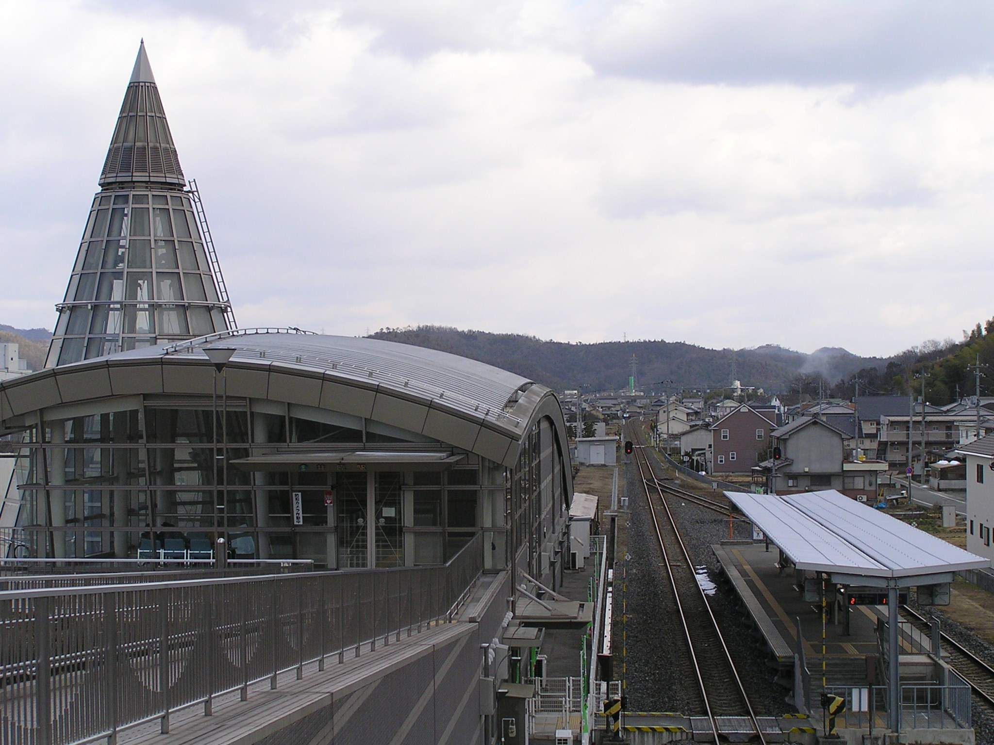 Platform at Ibara Station 井原駅_(岡山県)